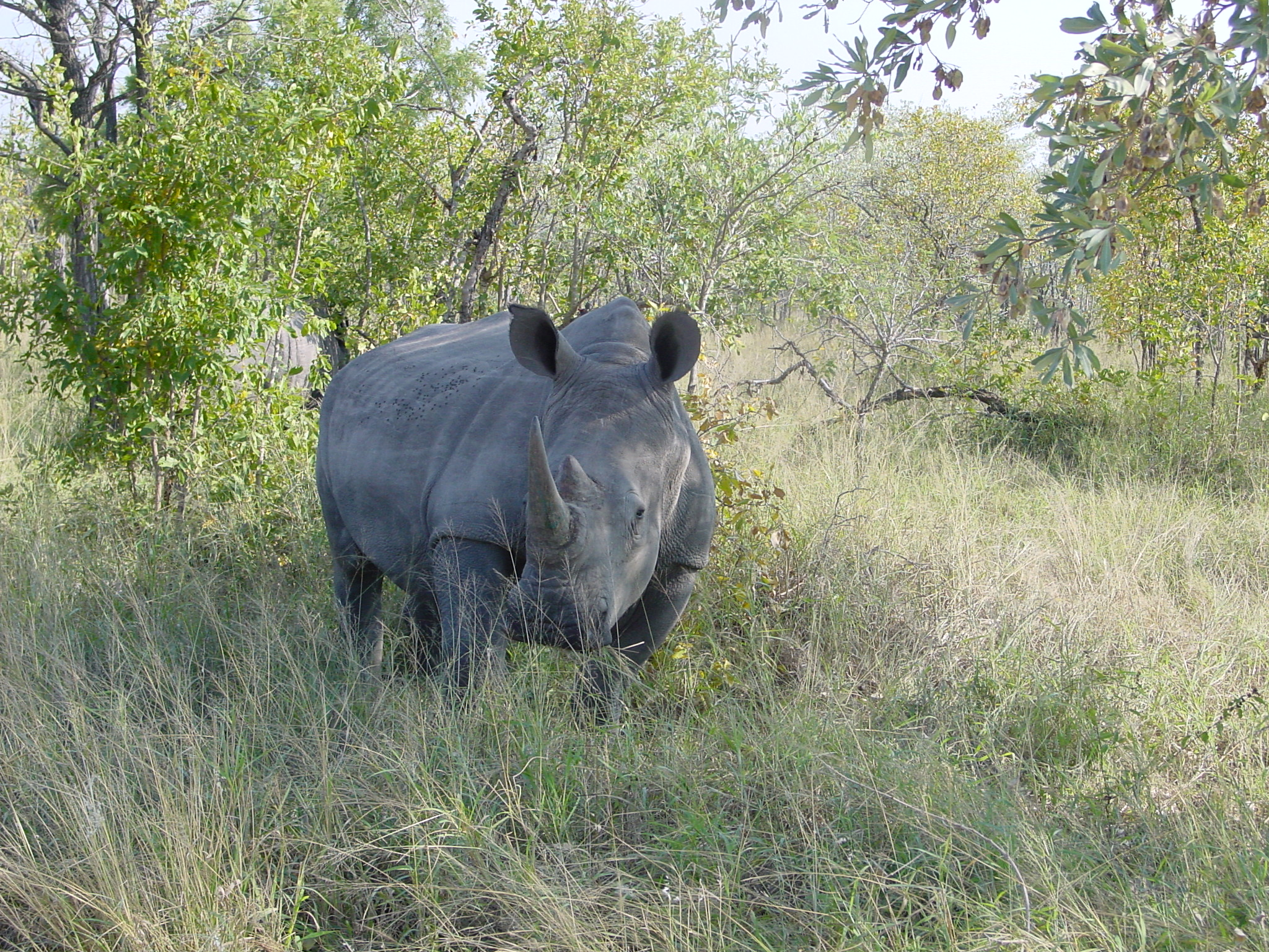 Ceratotherium simum, Kruger National Park